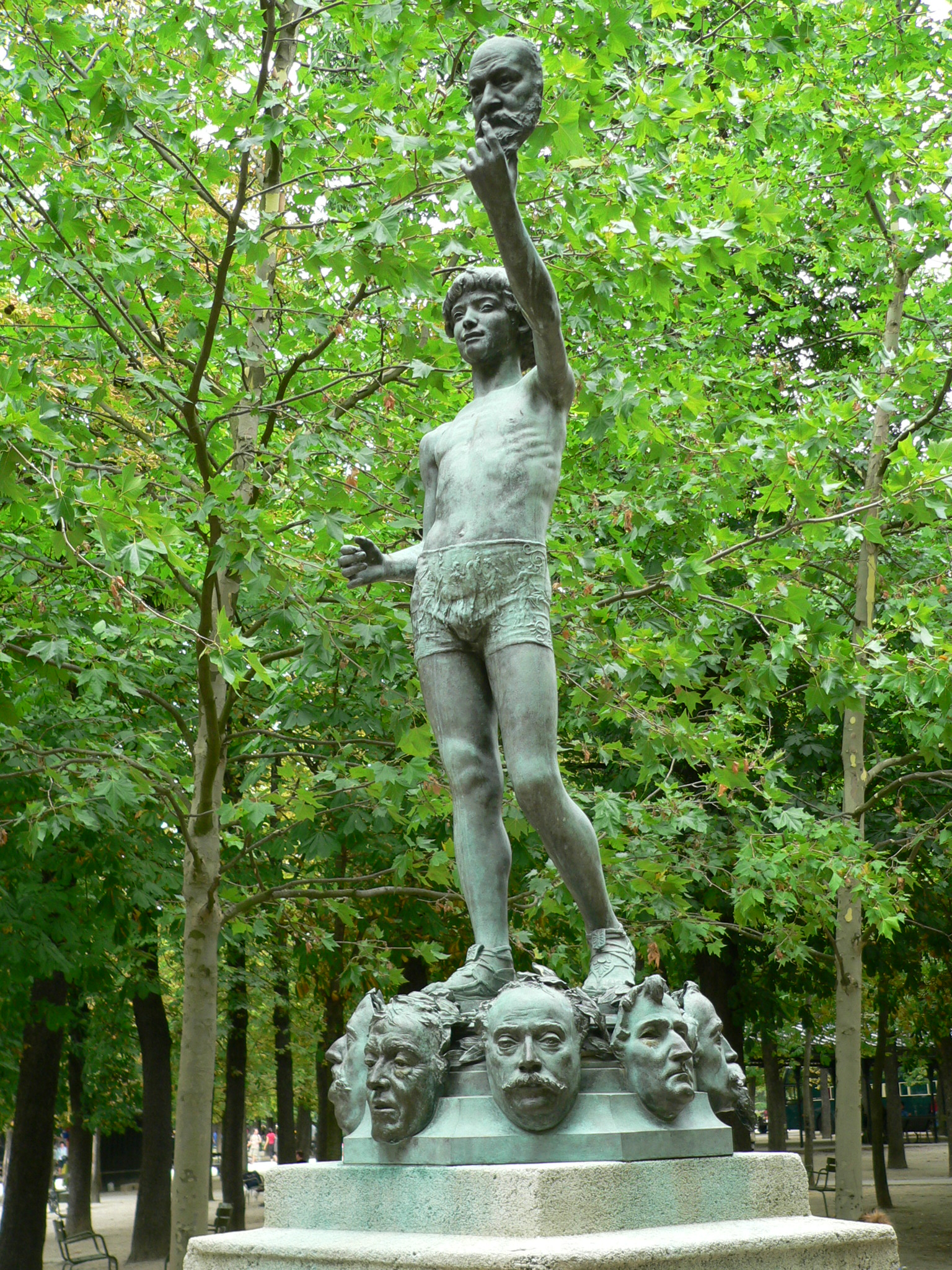 The Mask Seller (1883) by Zacharie Astruc, Luxembourg Gardens, Paris.